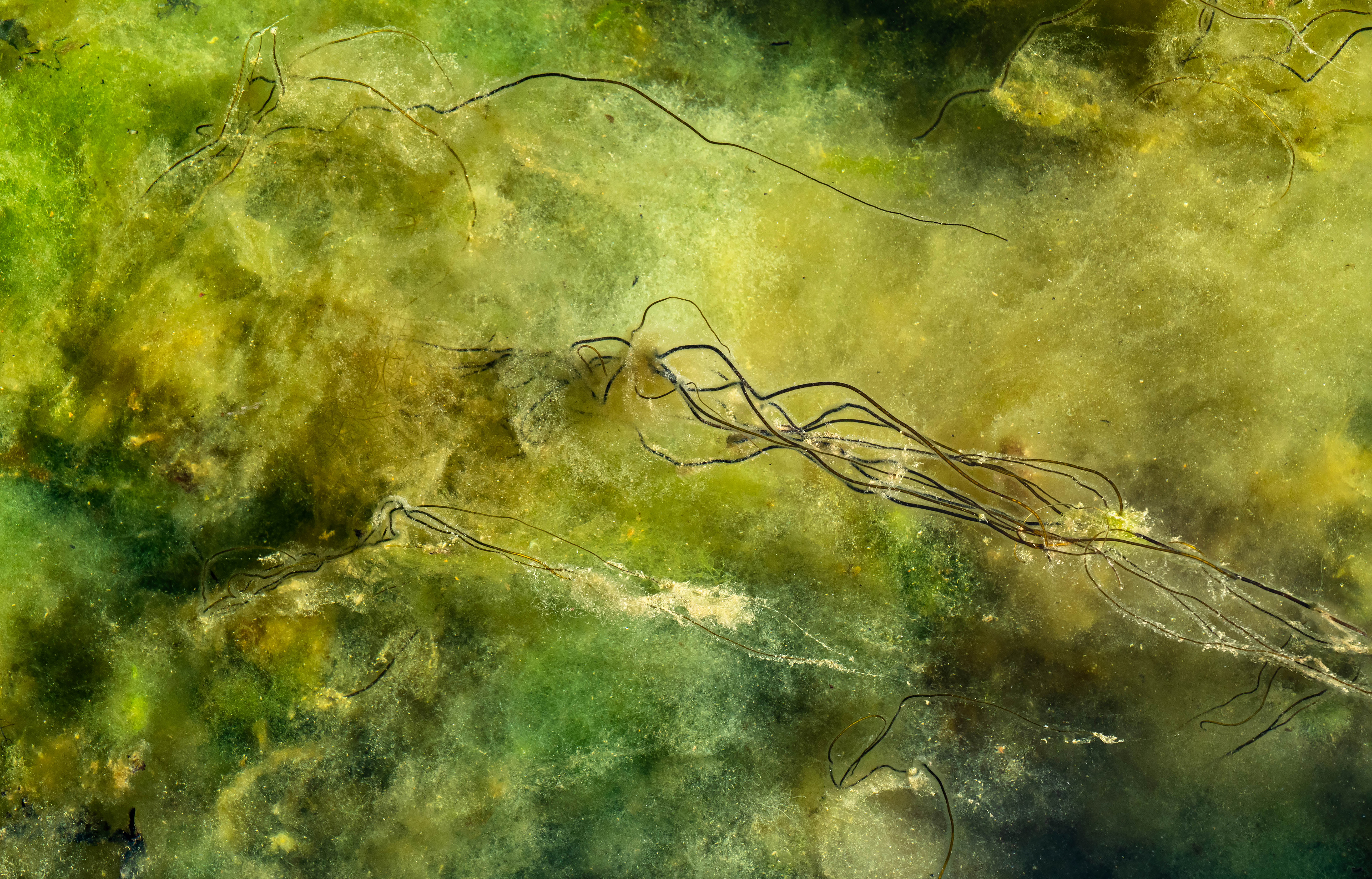 Marine algae in Gullmarsfjorden at Sämstad, Lysekil Municipality, Sweden. The long hairy strands of Dead Man's Rope (Chorda filum) are about 1 m (3.3 ft) high and the bottom is covered with soft blanket weed (Cladophora glomerata). Photo taken from a jetty on a clear sunny day with the blue sky reflecting on the water surface, giving the scene a blue tint. The photo was taken from this jetty.